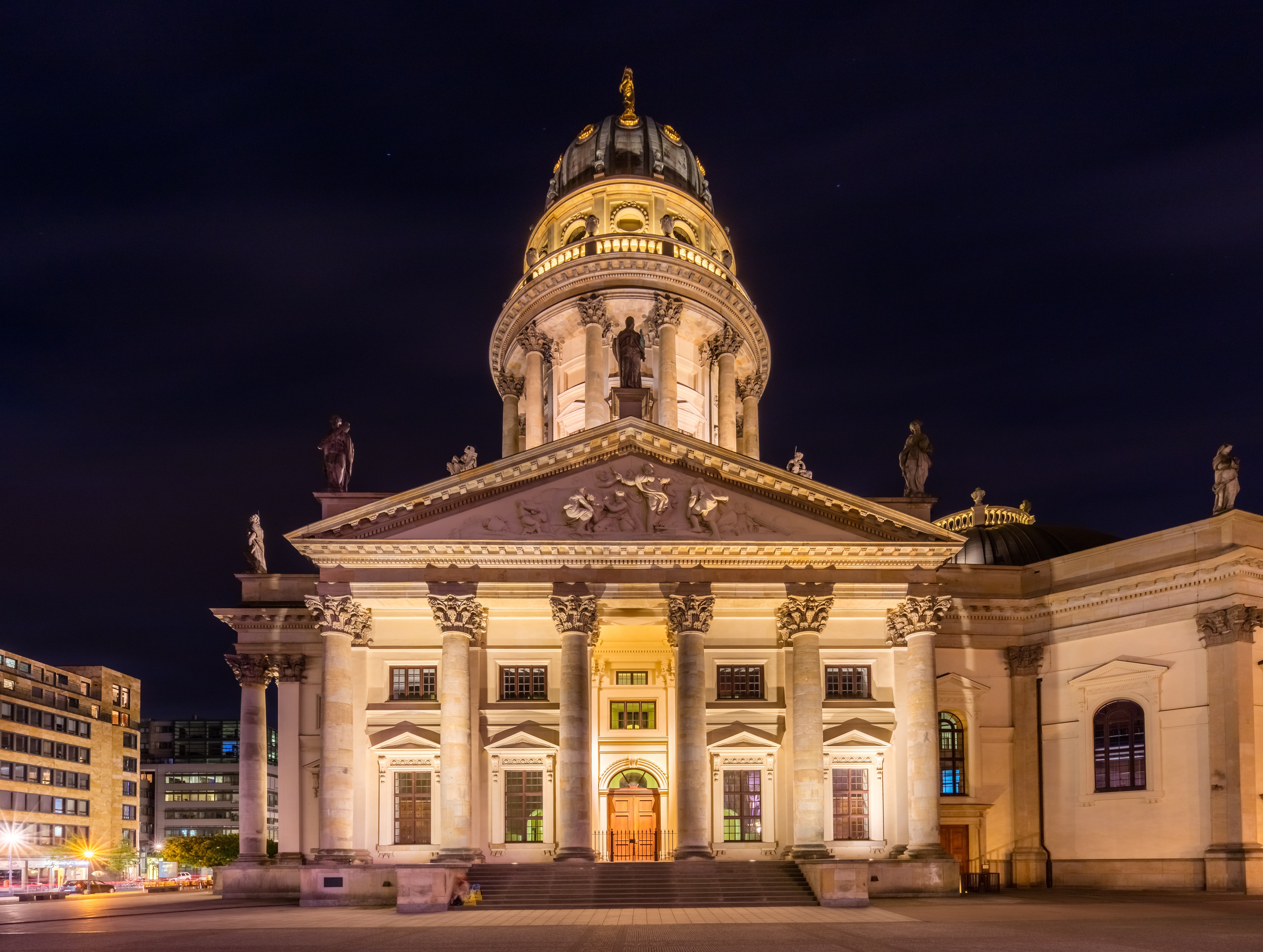 German Cathedral, Berlin, Germany